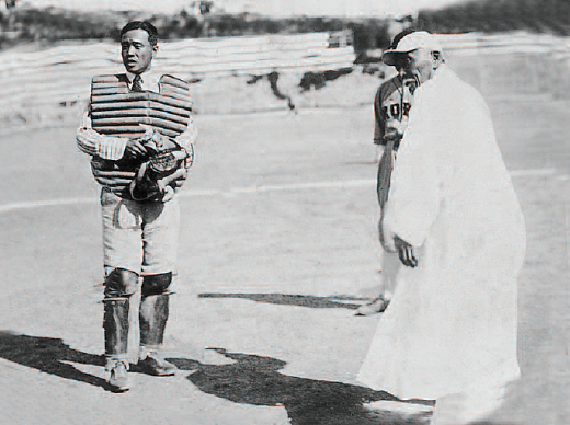 Baseball at the 1920 Korean National Sports Festival